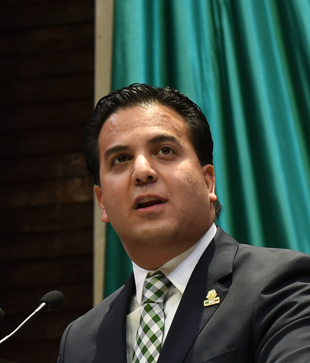 Damián